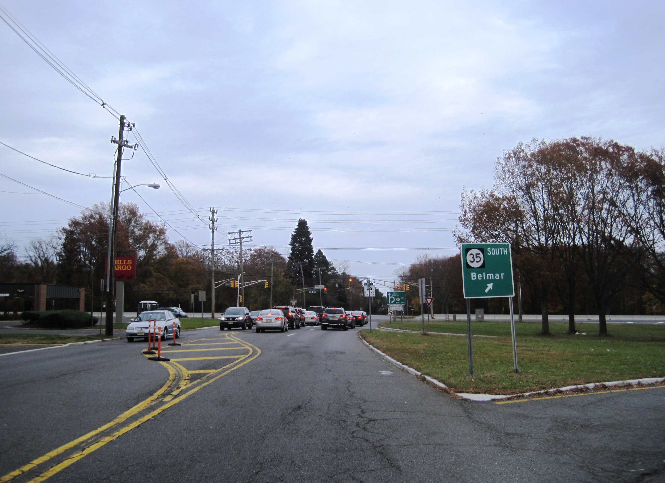 Photo showing Wertheins Corner, New Jersey, an unincorporated community within Ocean Township, Monmouth County. Photo taken along eastbound Deal Road approaching New Jersey Route 35.